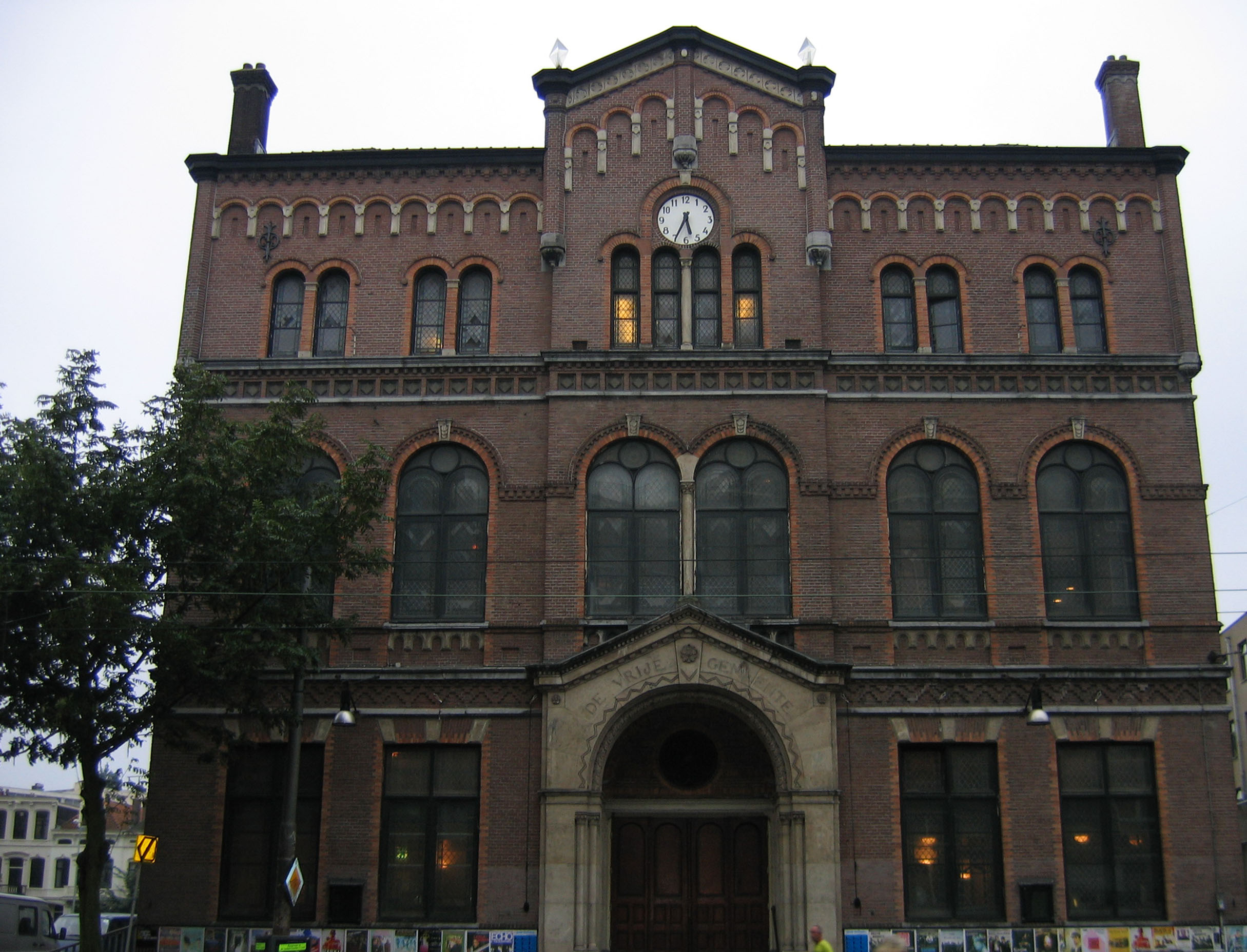 Paradiso, Amsterdam. Rock venue (former church)